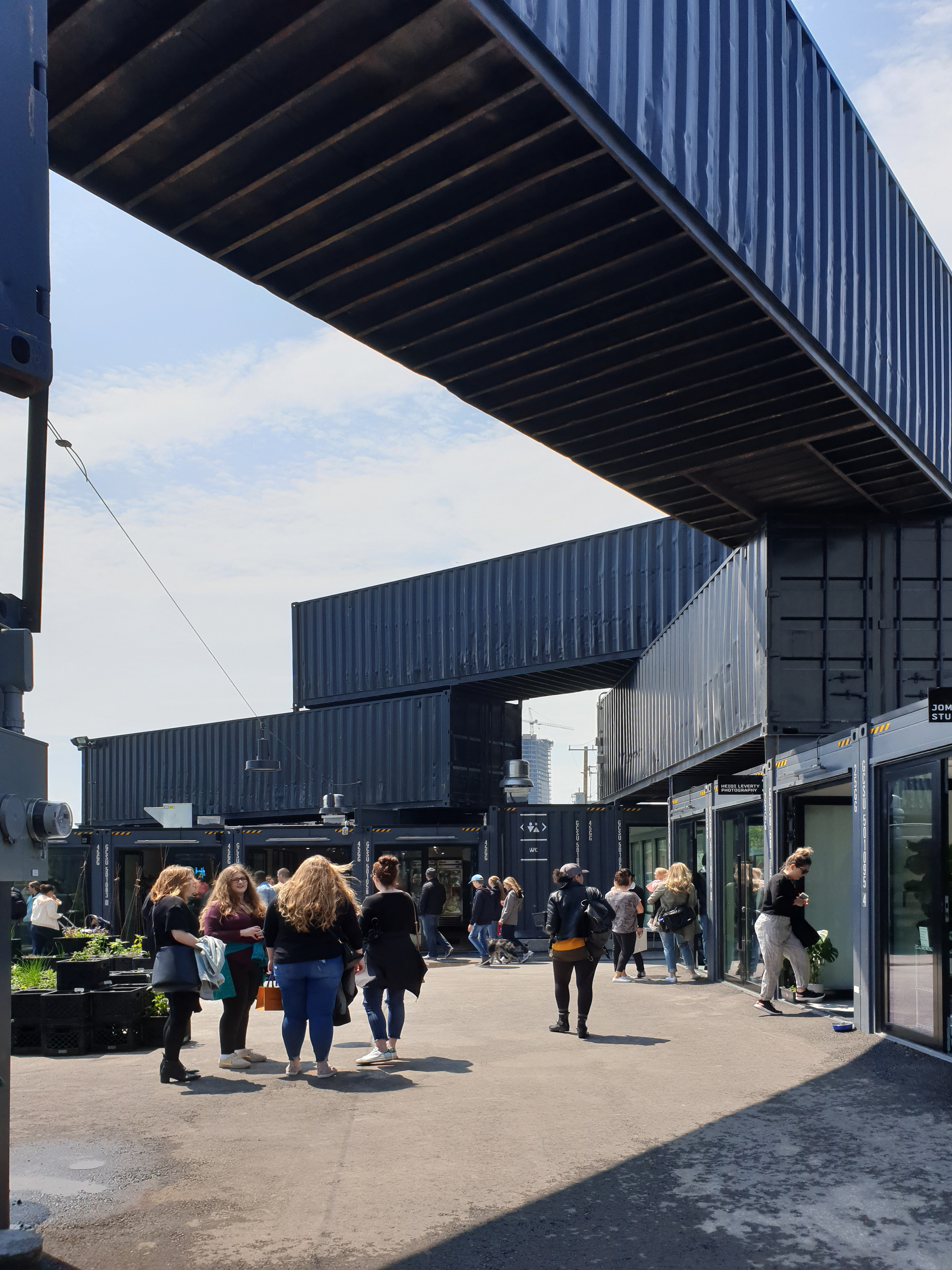 Stacked shipping containers of retail shops form a courtyard for gathering and display of public art.